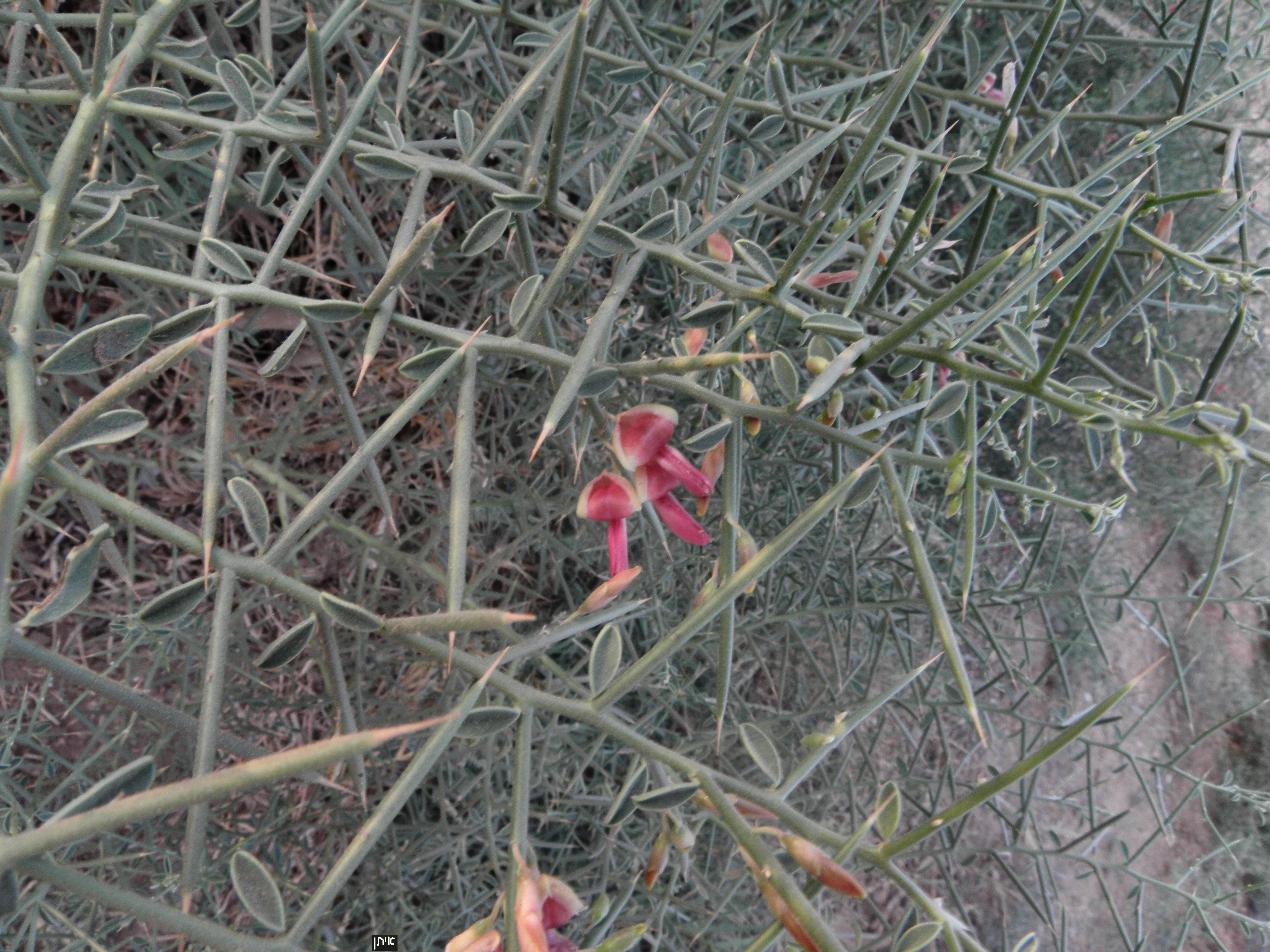 Alhagi maurorum - Camel Thorn הִגֵא מצוי